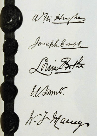 British Empire signatories to the Treaty of Versailles: Charles Doherty (Can.), Arthur Sifton (Can.), Billy Hughes (Aus.), Joseph Cook (Aus.), Louis Botha (S. Af.), Jan Smuts (S. Af.), Walter Massey (N.Z.).